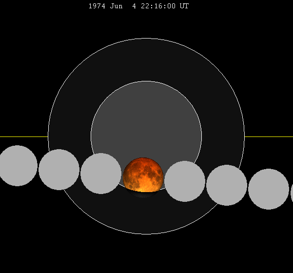 June 1974 lunar eclipse chart of moon's path through the earth's shadow. thumb